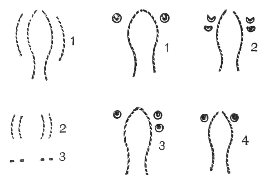 Punctures or bites of snakes